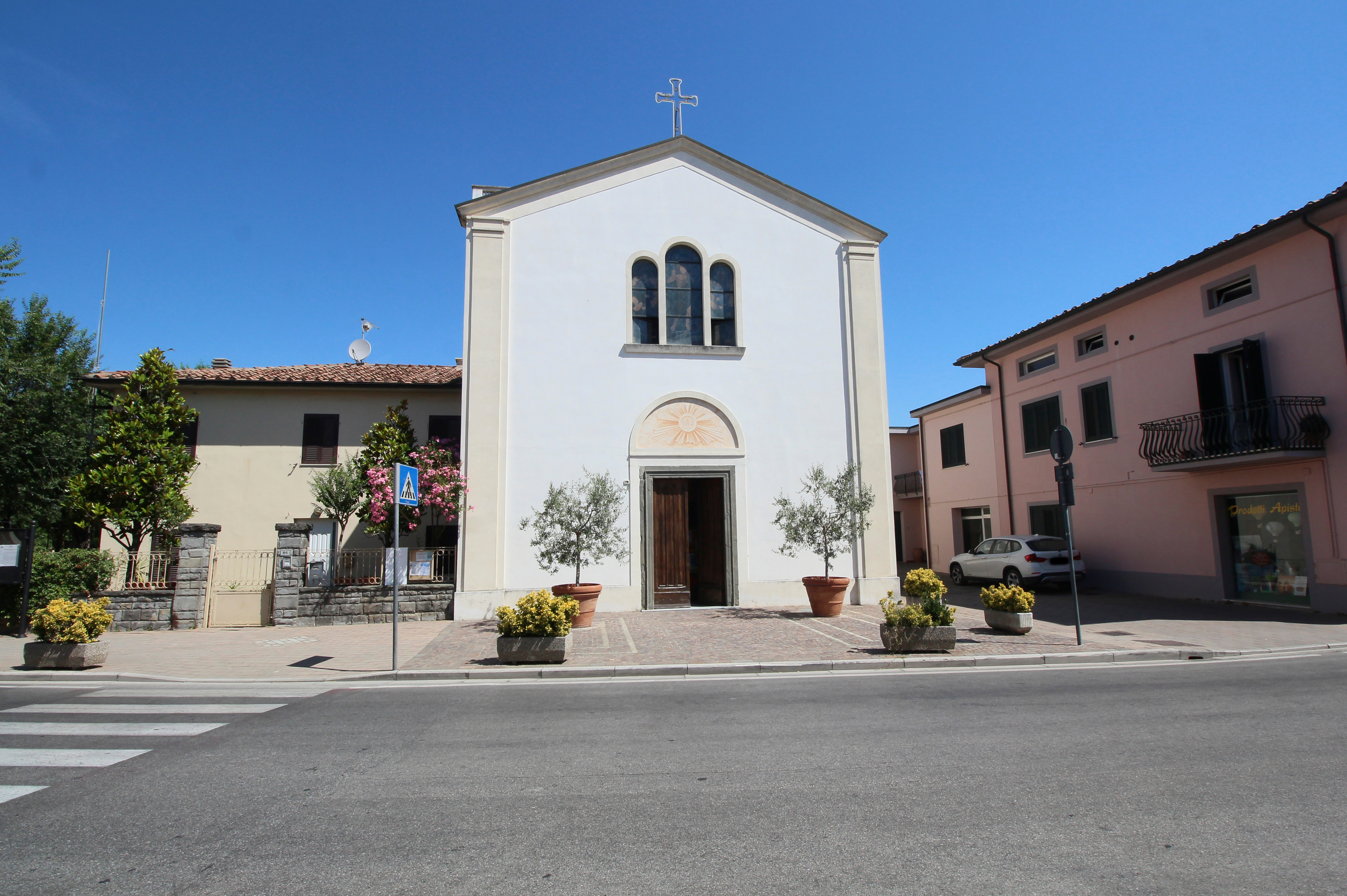 Church Sant'Andrea Apostolo, Cenaia, hamlet of Crespina Lorenzana, Province of Pisa, Tuscany, Italy